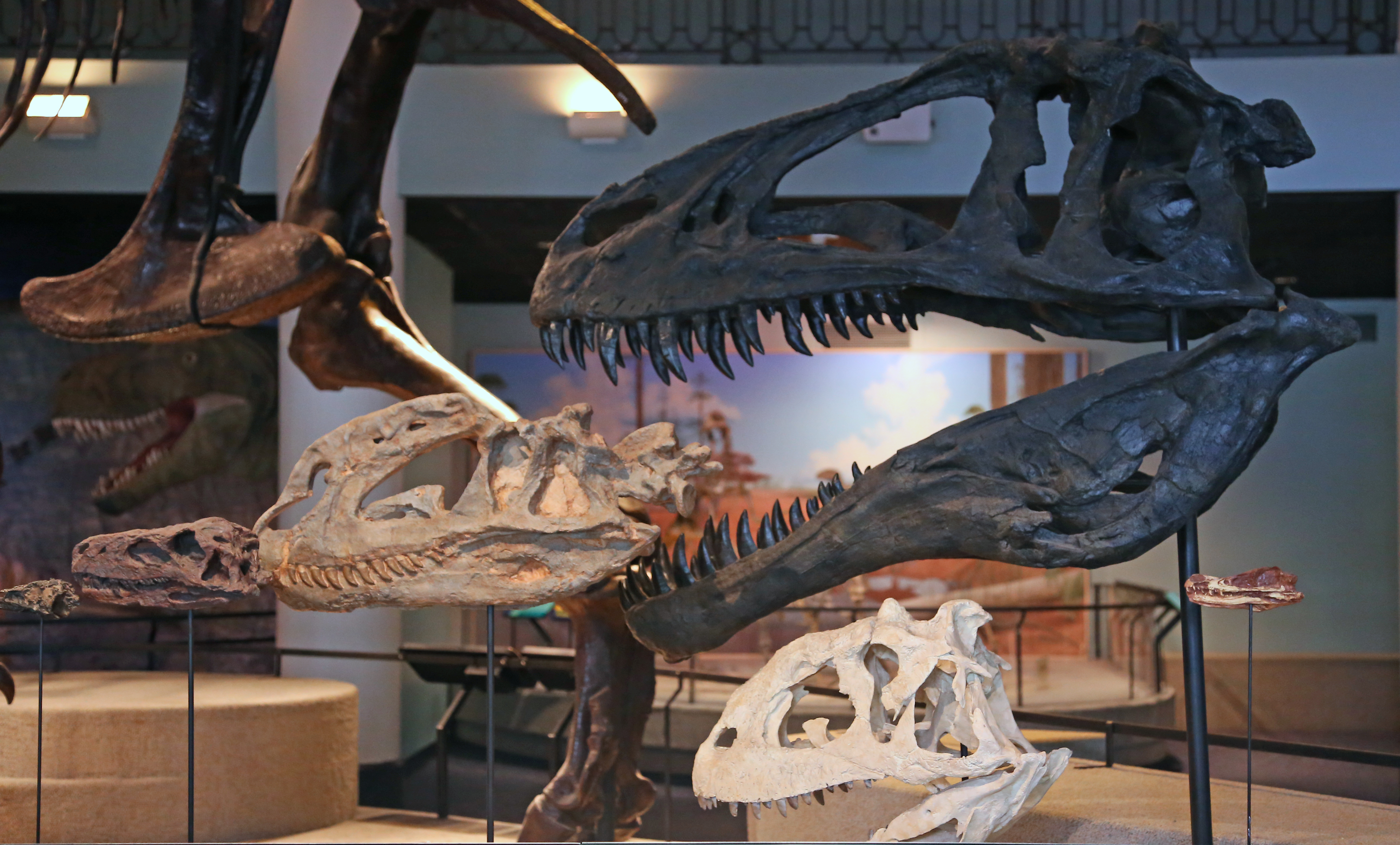 Academy of Natural Science of Drexel University Philadelphia PA September 11, 2013